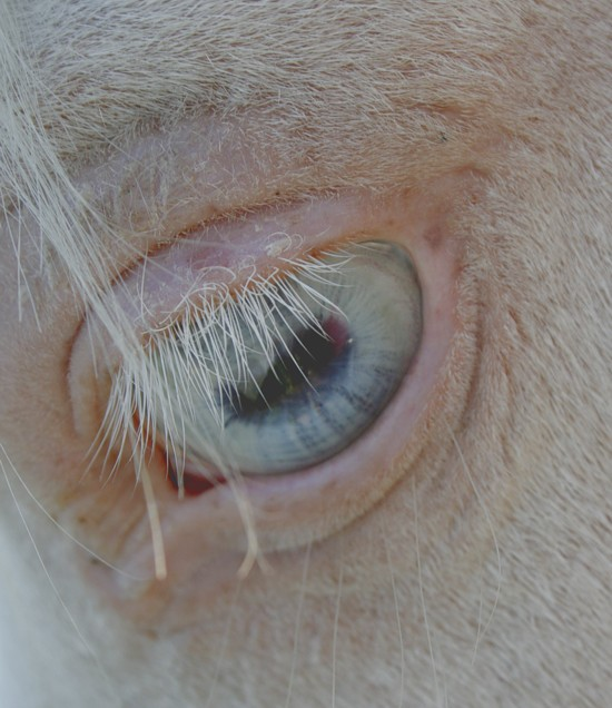 Horse eye close up for cremello and perlino skin and eye color